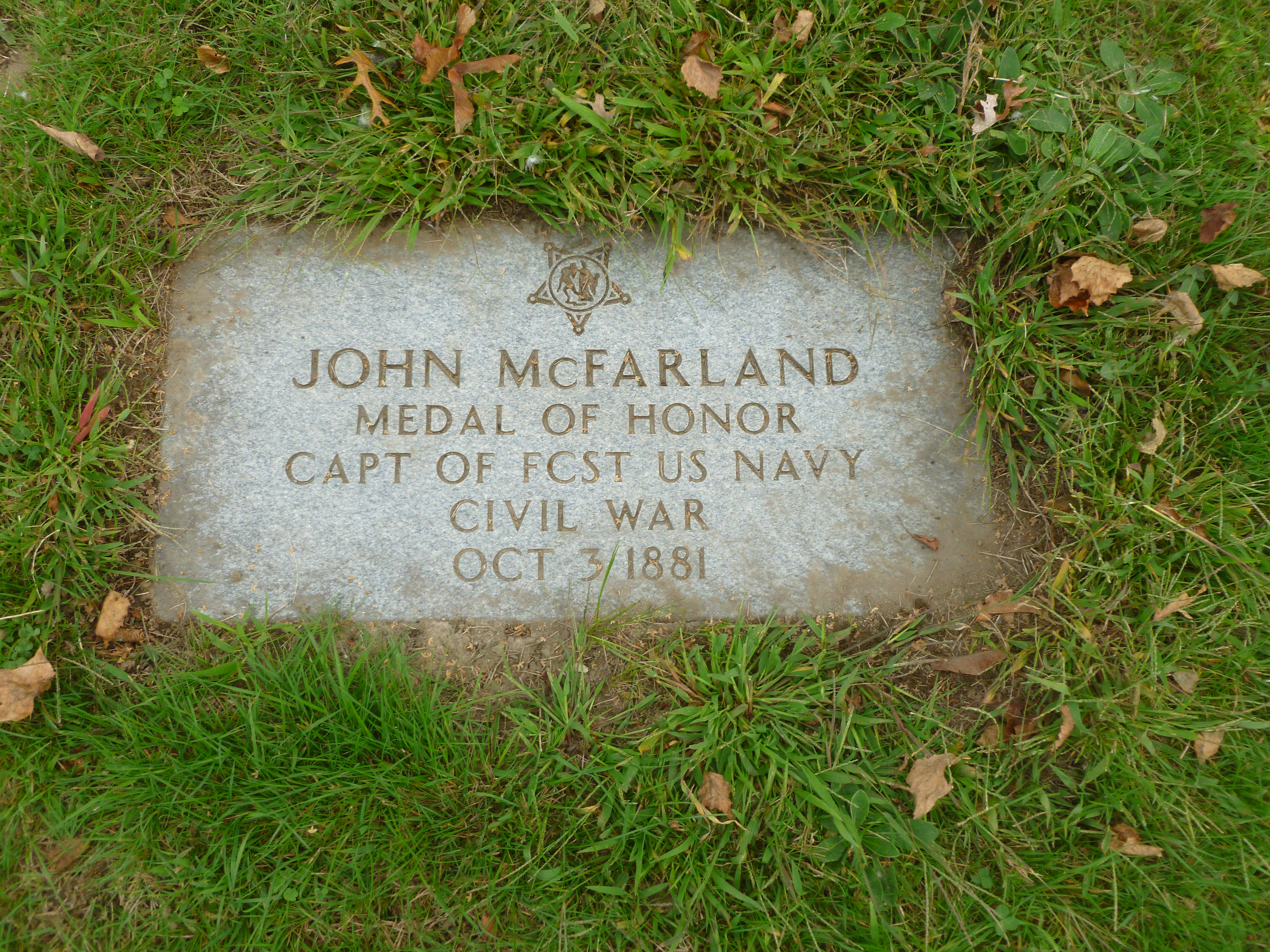 Gravestone of John McFarland (1840 - 1881), a Medal of Honor recipient. Located at Saint Patrick Cemetery, 1251 Gorham Street, Lowell, Massachusetts. Gravestone is in the Flag Pole section, immediately south of the cemetery chapel.